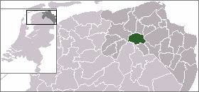 Location of Groningen (city)